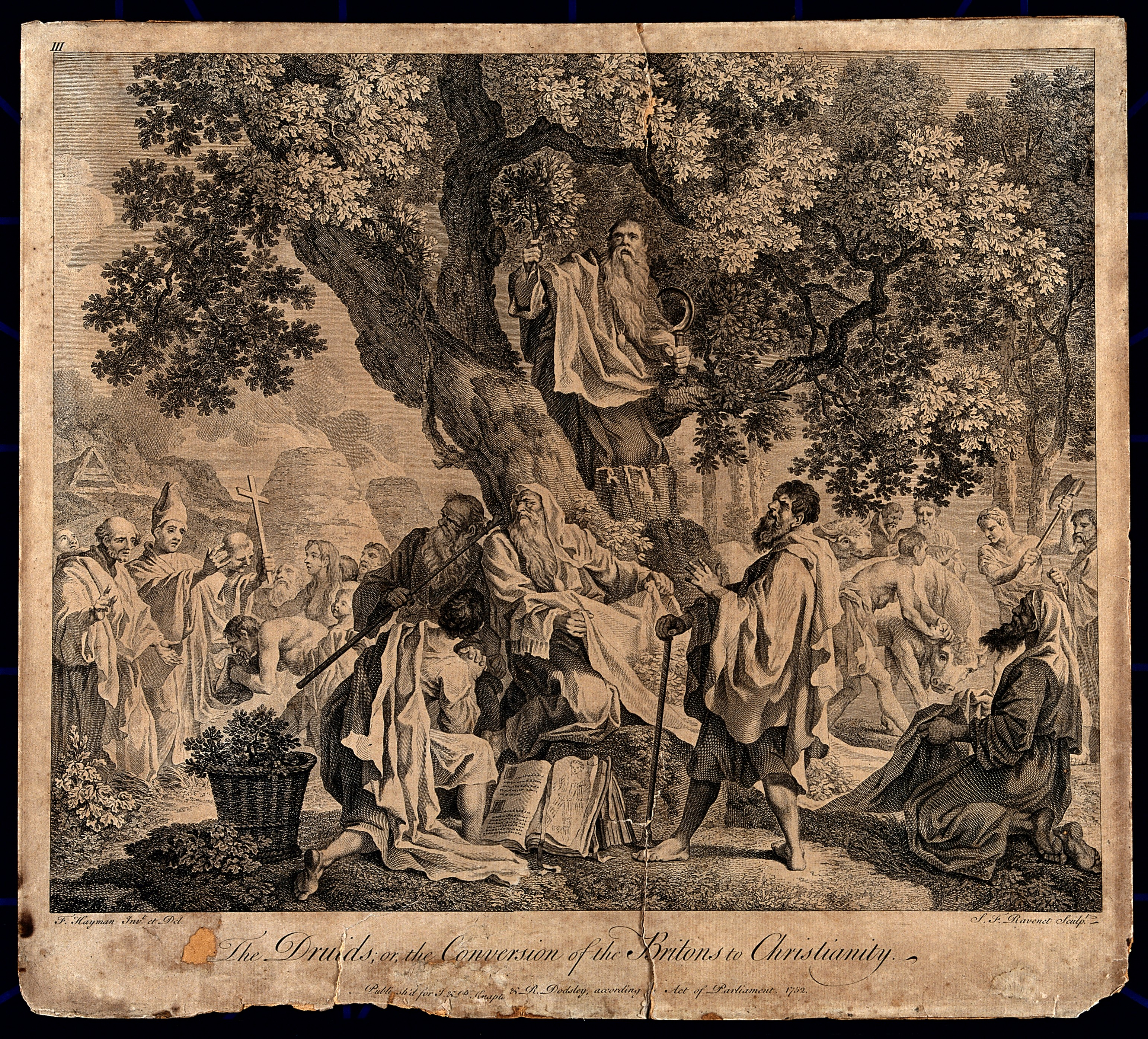 "The druids; or the conversion of the Britons to Christianity". Engraving by S.F. Ravenet, 1752, after F. Hayman. Iconographic Collections Keywords: Francis Hayman